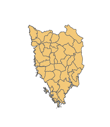 Municipalities Istria County map